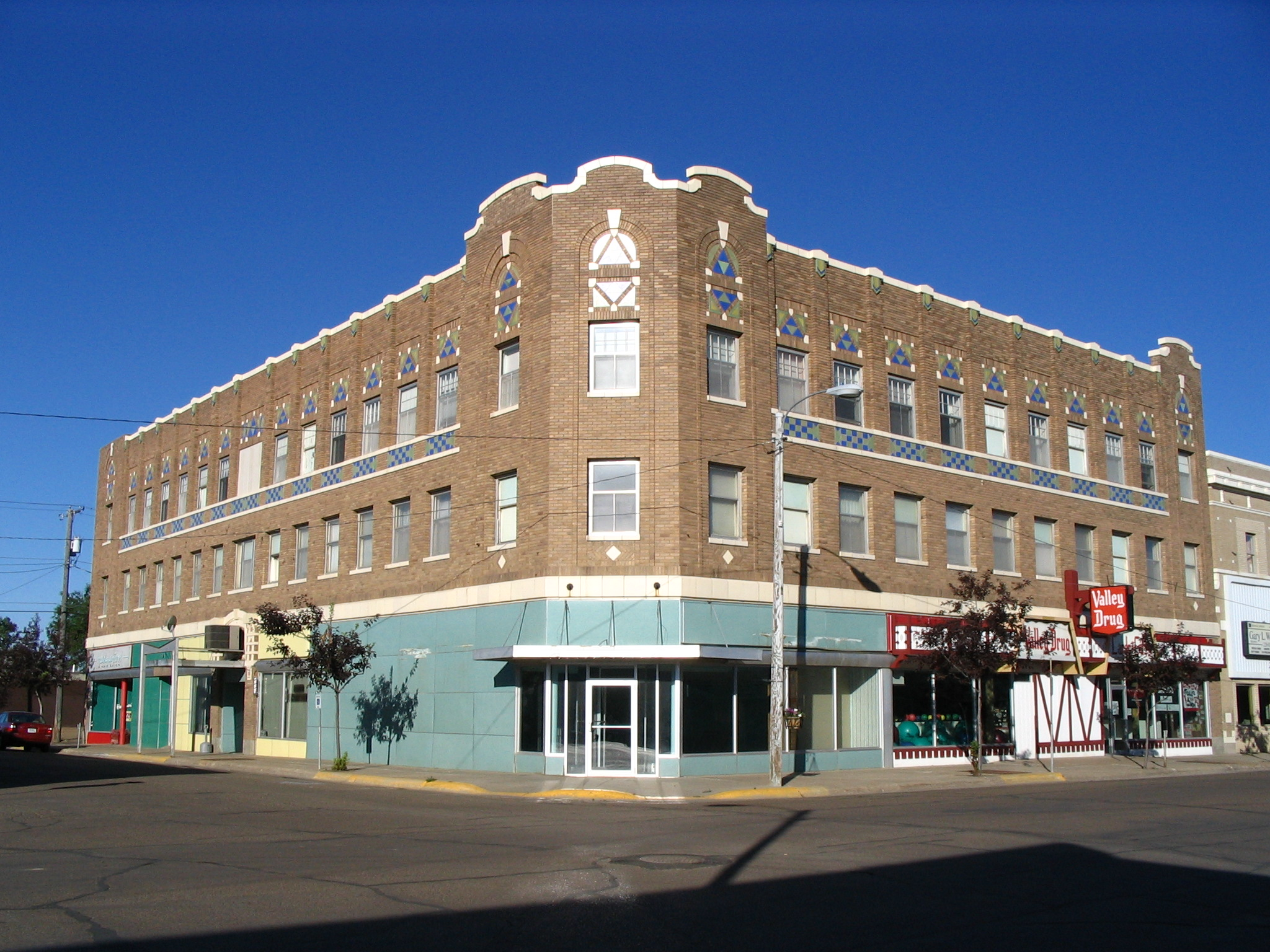 Rundle Building (208 5th Street South) Interest in Spanish Mission architecture reached its height in 1915, after the Panama California Exposition popularized the style far beyond the Southwest. Building in the highly recognizable style allowed small town boosters to project a modern, cosmopolitan image. No wonder the premier Montana architectural firm of Link and Haire included colorful terra-cotta detailing, decorative brickwork, and high, shaped parapets—all Mission style elements—in their design for this three-story building, headquarters of the Rundle Title and Abstract Company. The firm's principal, land locator Sidney Rundle, was one of Glasgow's biggest boosters, and his fortune was tied directly to the area's ability to attract homesteaders. His up-to-date building became the center of Glasgow commerce and recreation. Its basement housed a billiards room, bowling alley, and five-chair barber shop with a Turkish bath steam cabinet and two showers, where customers could clean themselves up for a night on the town. Occupying the first floor were ten retail establishments, boasting modern display cases "after the fashion of the big office buildings in the largest cities" and electric lights that illuminated "every nook and corner." Offices, the abstract company's fireproof vault, and club rooms for the use of the city's businessmen filled the second floor. A forty-room hotel, later converted into apartments, topped the building. The Glasgow Courier moved into the business block after 1920. The renowned Sam Gilluly covered Fort Peck Dam's construction and the rise of Glasgow Air Base from his office here during his thirty-year tenure as the Courier's legendary editor. The imposing Rundle Building in Glasgow, Montana. It is listed on the national Register of Historic Places.